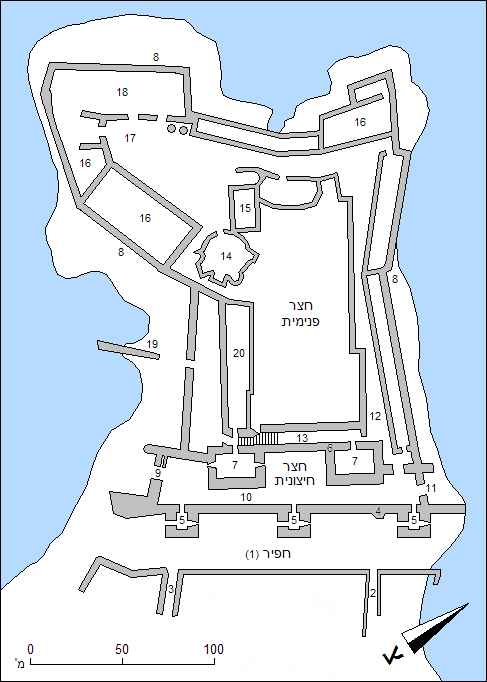 plan of chateau pelerin